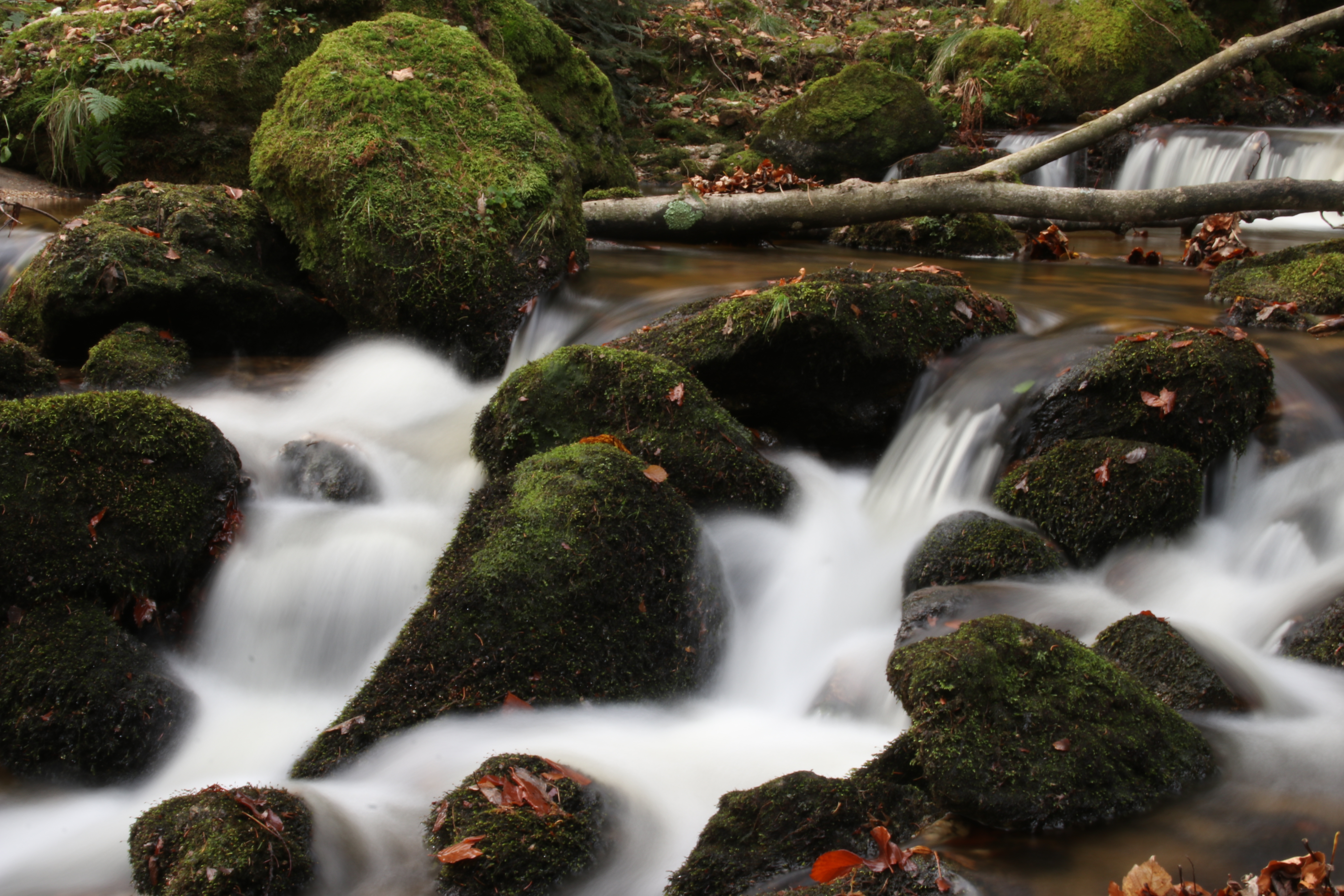 A long exposure photograph of the gorge 'Ysperklamm' in Austria.